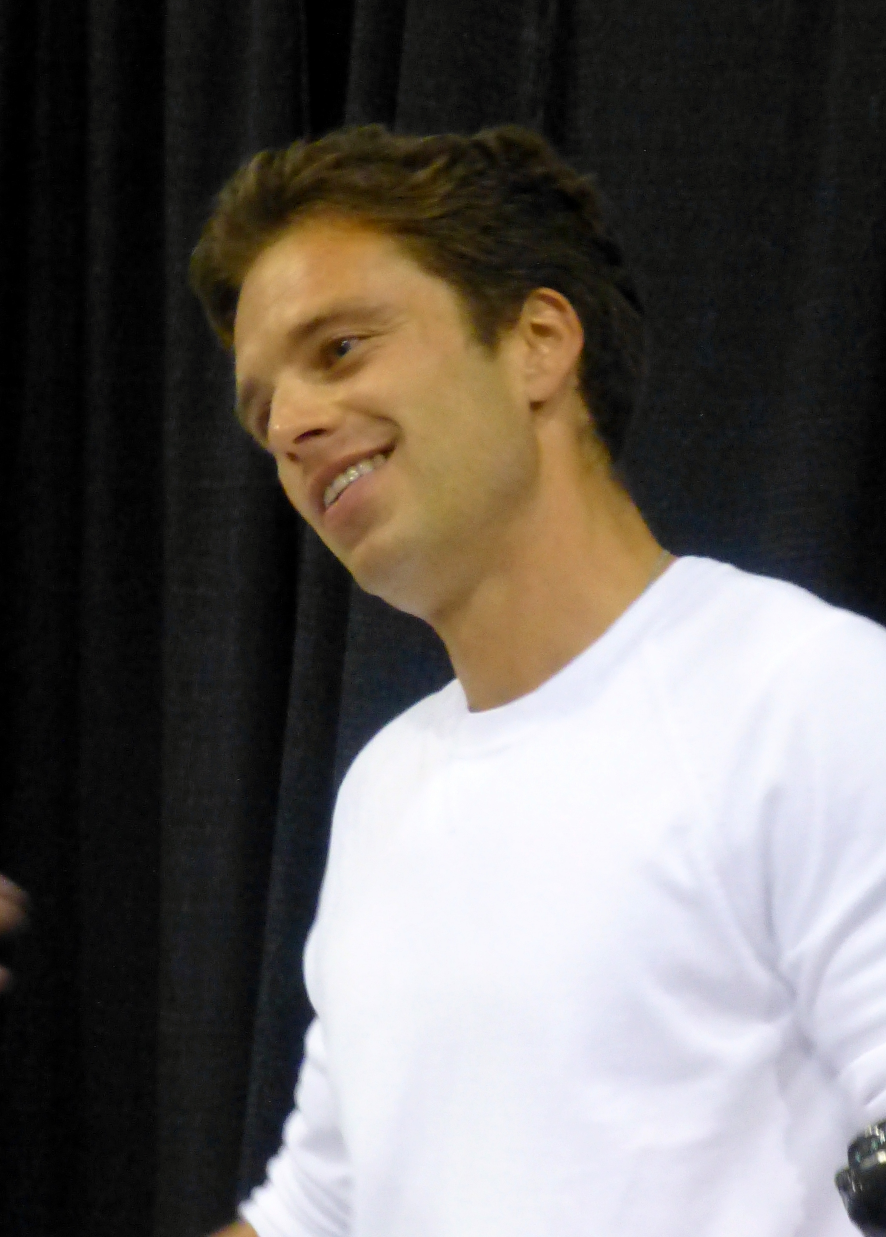 Guest at the 2014 Wizard World Chicago.